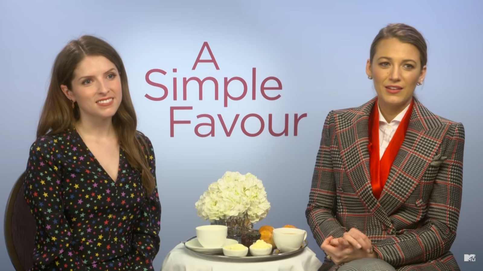 Anna Kendrick, Blake Lively and director Paul Feig reveal their specific tried-and-tested techniques for filming steamy sex scenes, how they built their on-screen chemistry, the secrets behind the movie’s shocking twists and the Anna Kendrick RAP SCENE you WON’T see in cinemas!